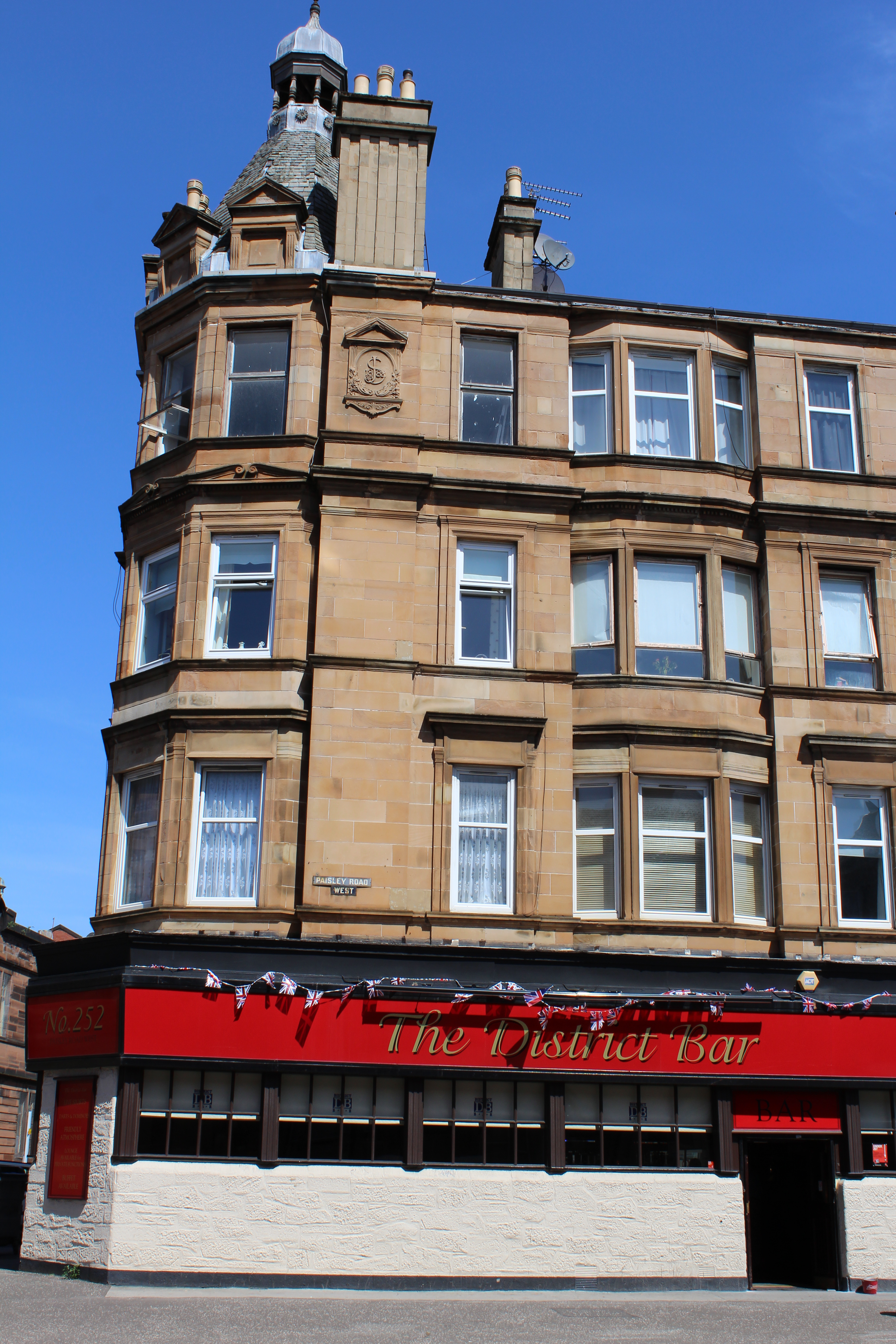 The District Bar, Paisley Road West, Glasgow